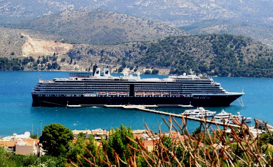 Oosterdam docked at Argostoli's port